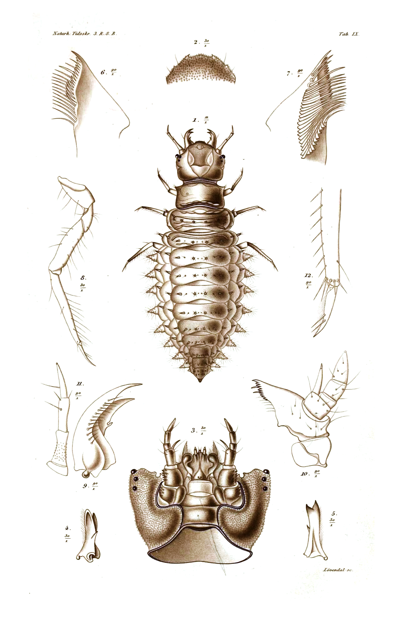 Larva of Spercheus emarginatus. De metamorphosi eleutheratorum observationes : bidrag til insekternes udviklingshistorie / ved J. C. Schiødte.